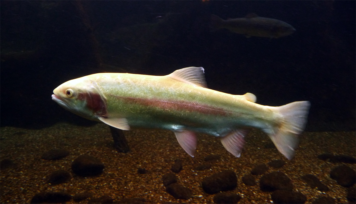 Oncorhynchus mykiss